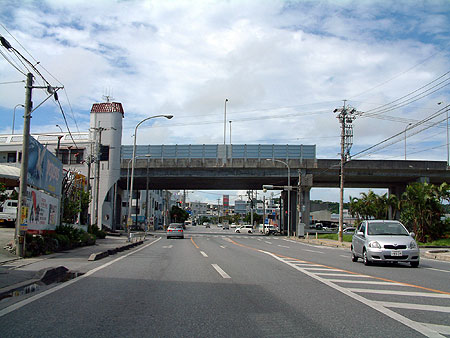 Koei Intersection